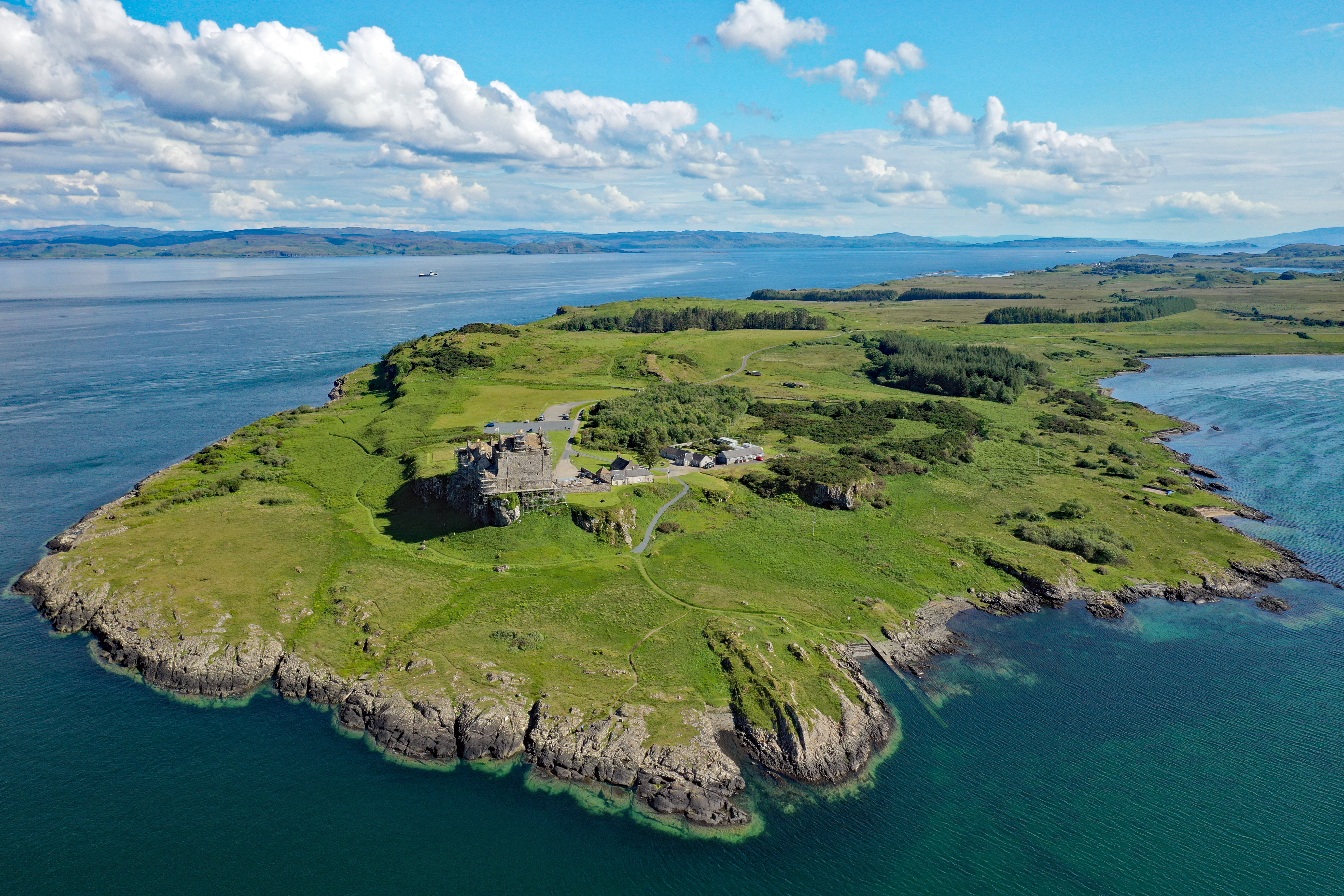 Duart Castle (Isle of Mull, Inner Hebrides, Scotland, UK)